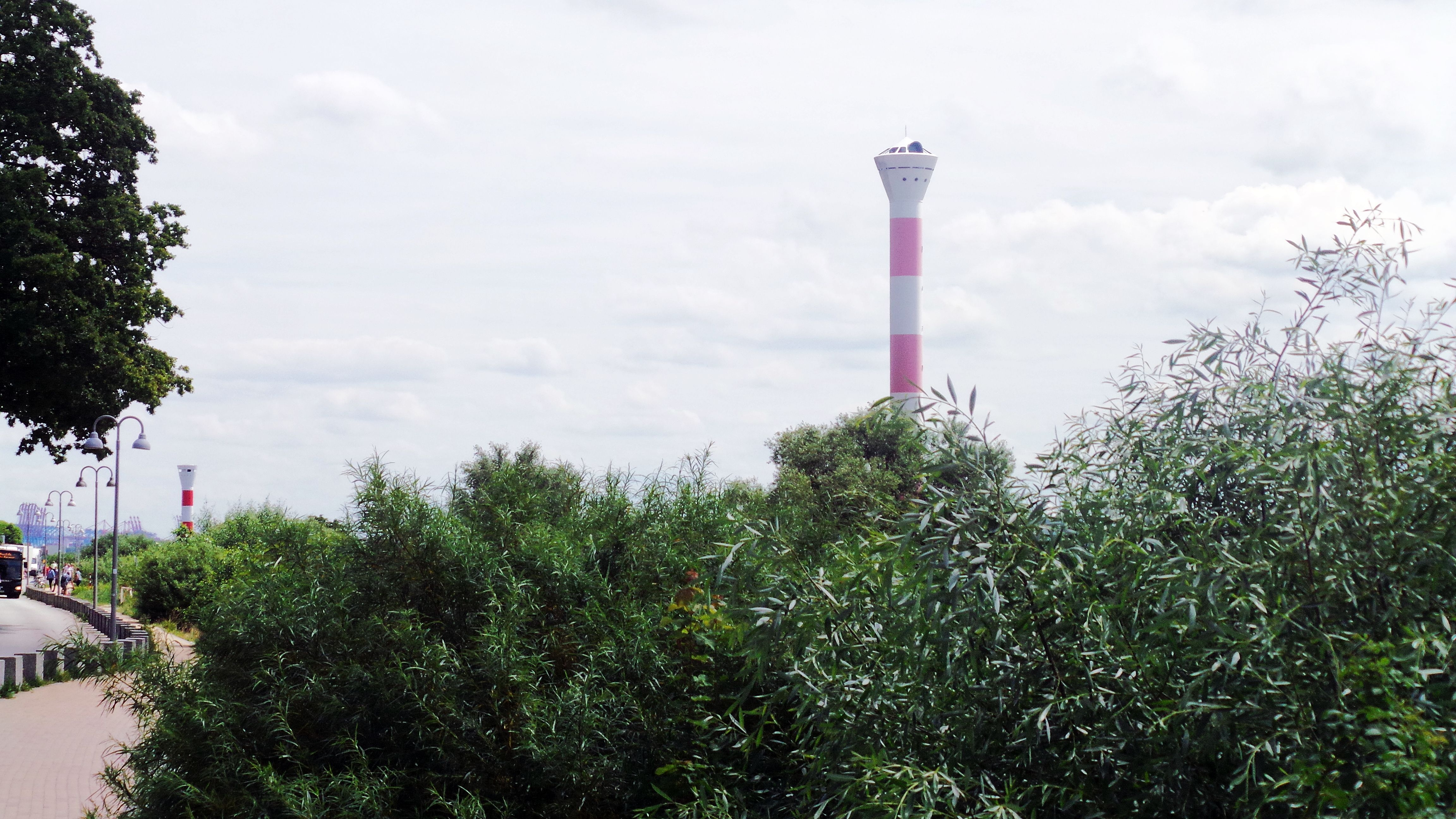 Blankenese Unterfeuer